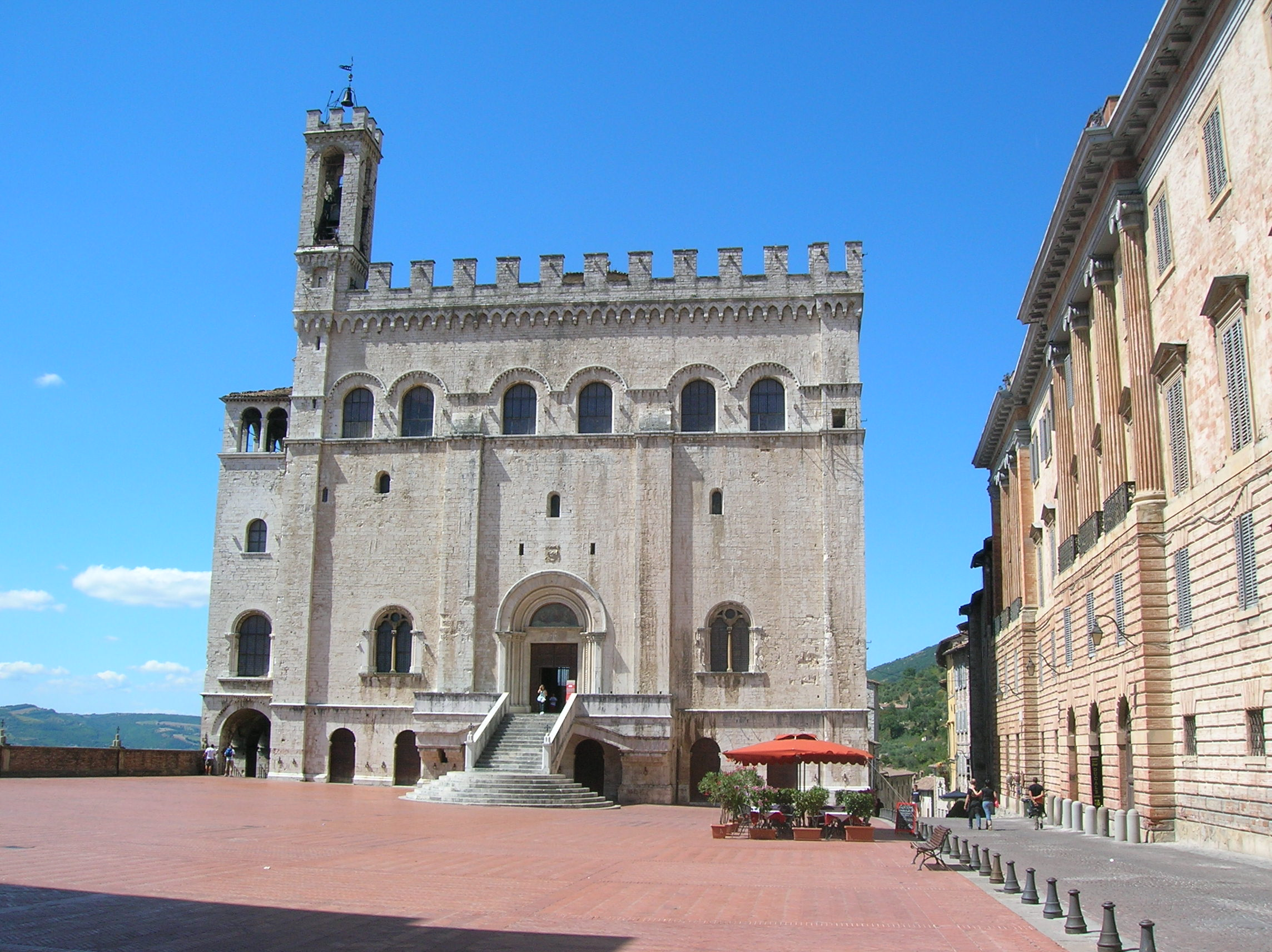 This is a photo of a monument which is part of cultural heritage of Italy.